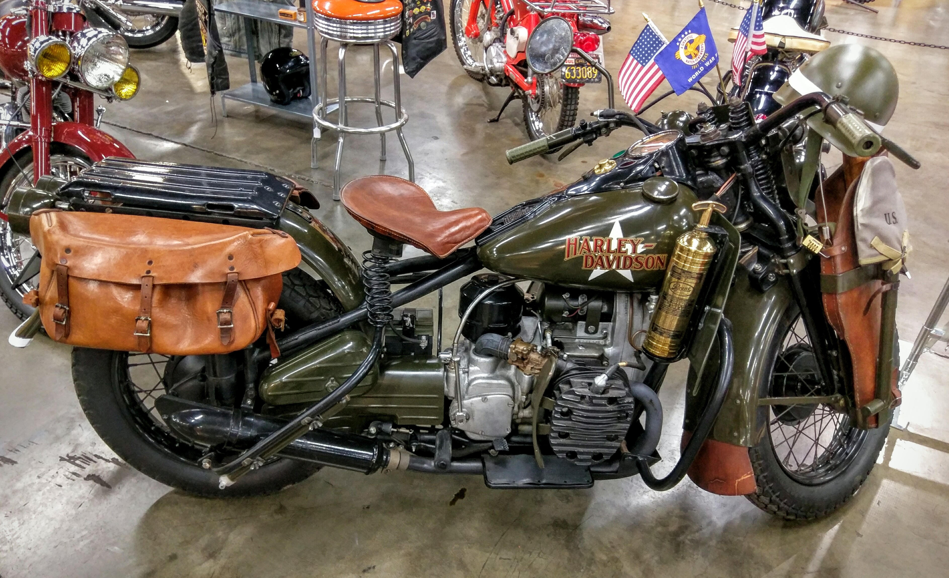 On display at the California Automobile Museum. Photo by Jim Heaphy.